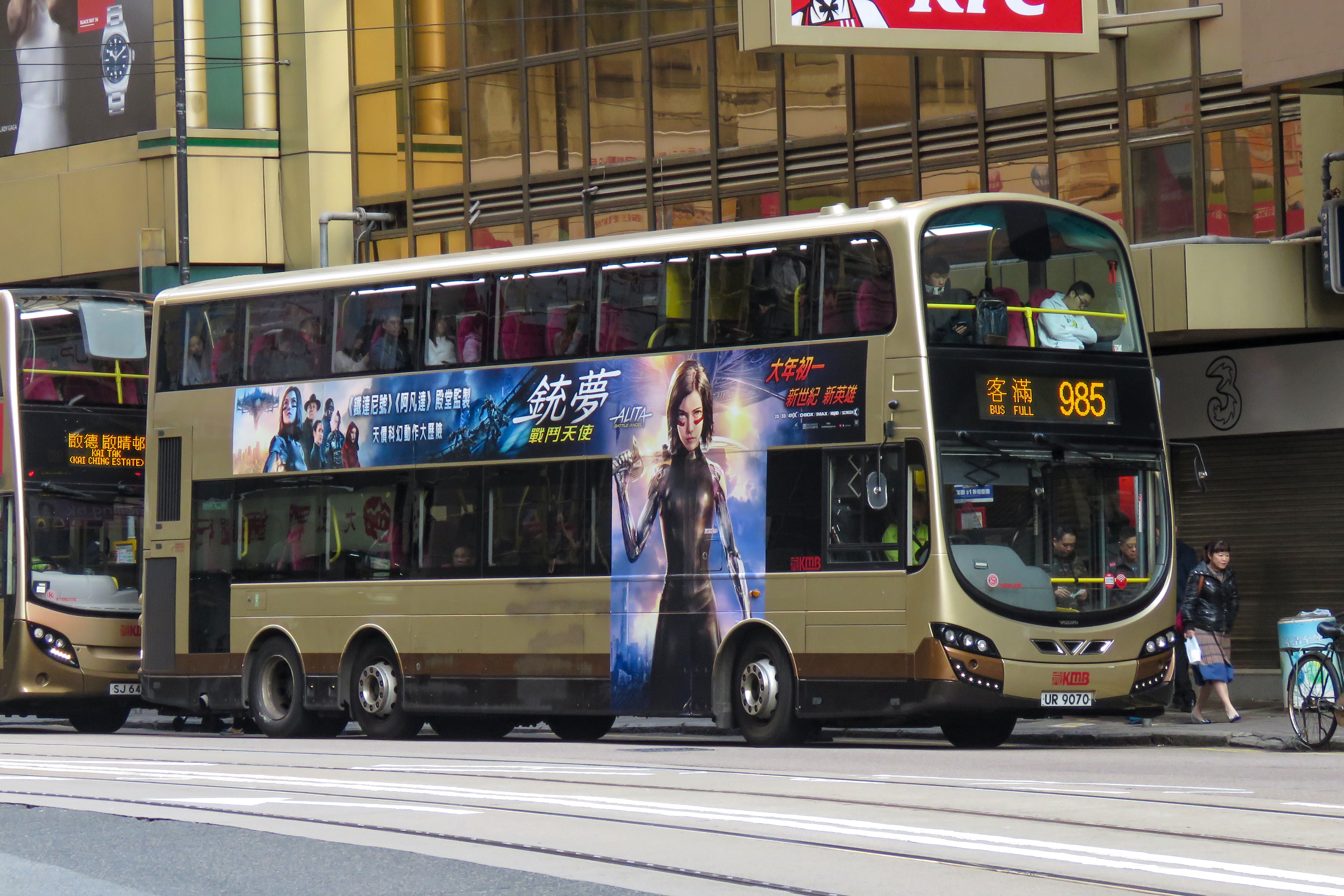 Promoting a new film?